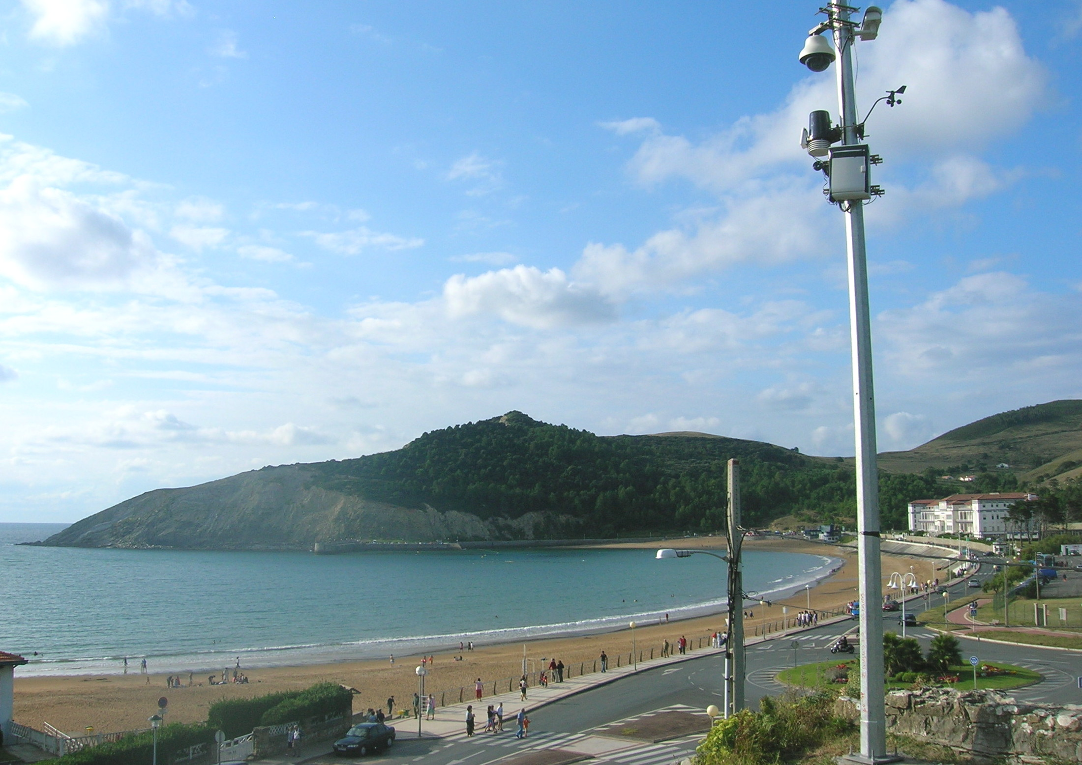 Gorliz and Astondo beaches, in Gorliz, Biscay.